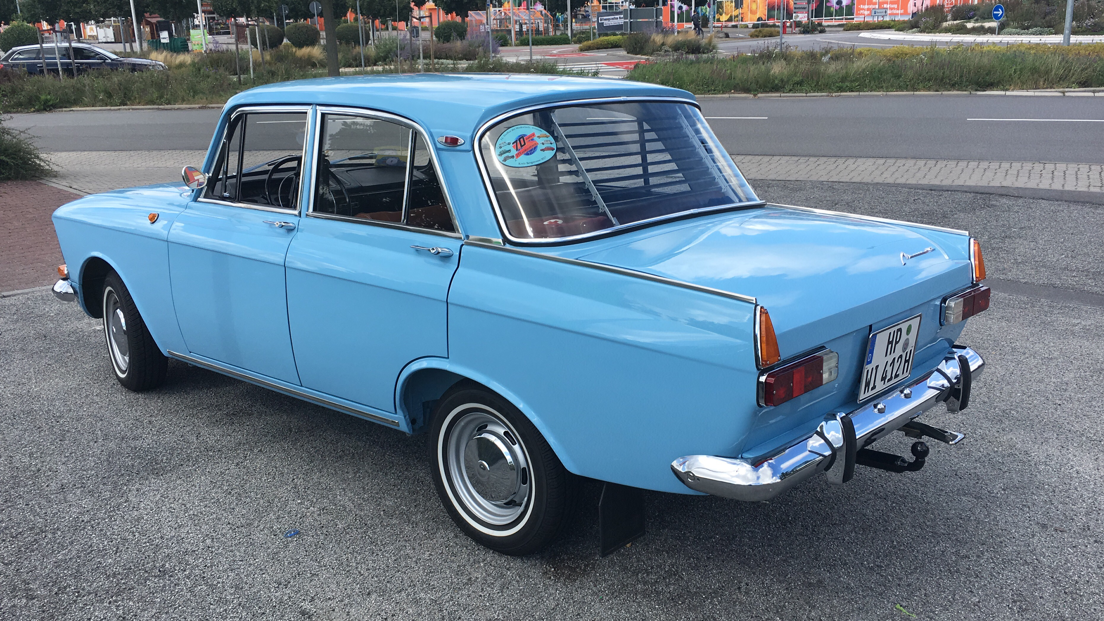 Moskvich 412 IE, year 1973, rearview